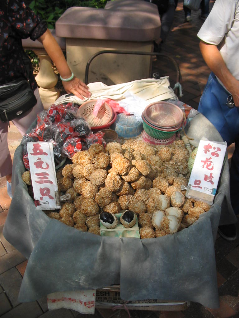 Fermented salted eggs are very popular. They look better than the "balut" they eat in the Philippines. At least I don't these are partially hatched! They sure are black when they crack them open.Eggs